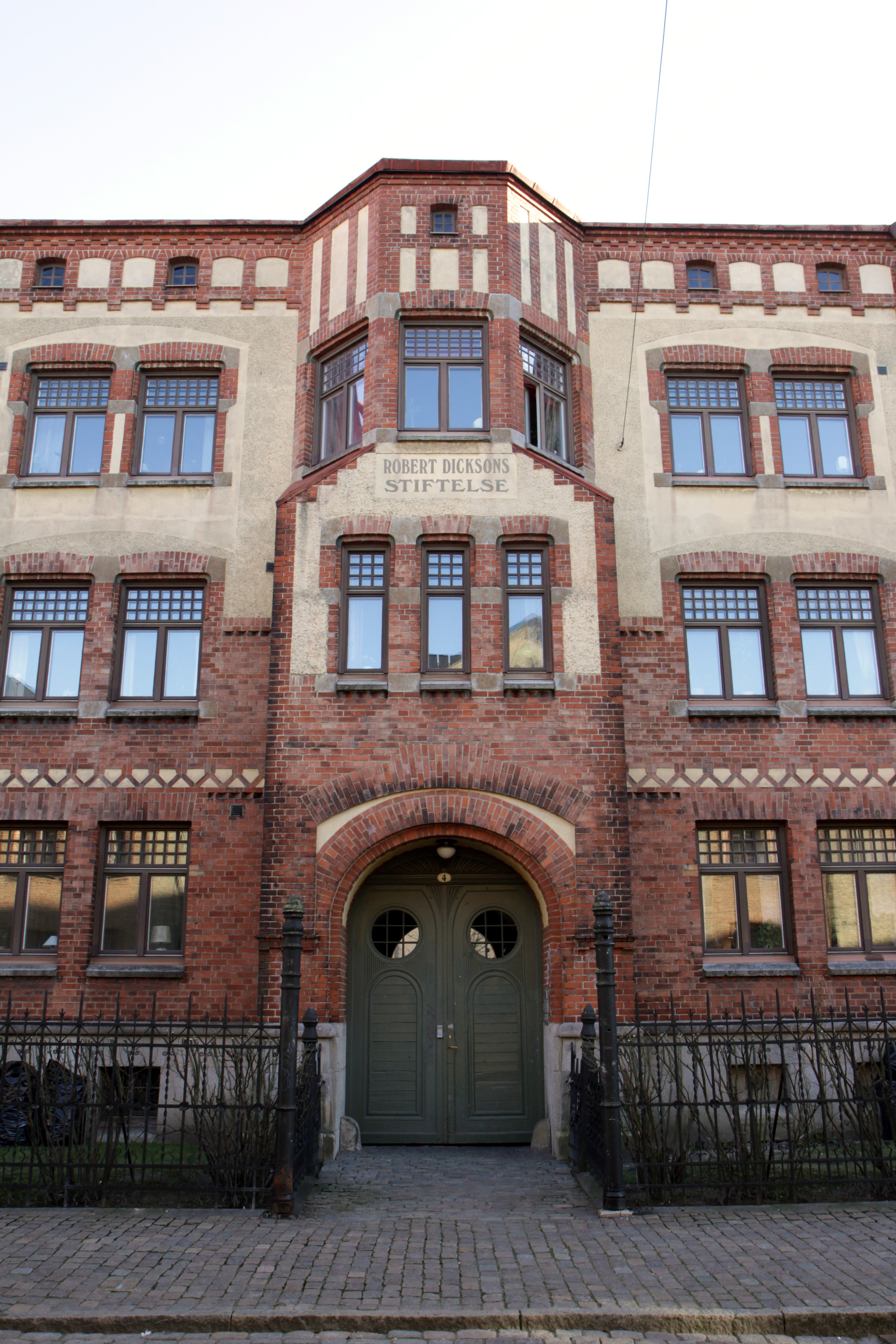 The entrance to one of the buildings owned by The Robert Dickson Foundation